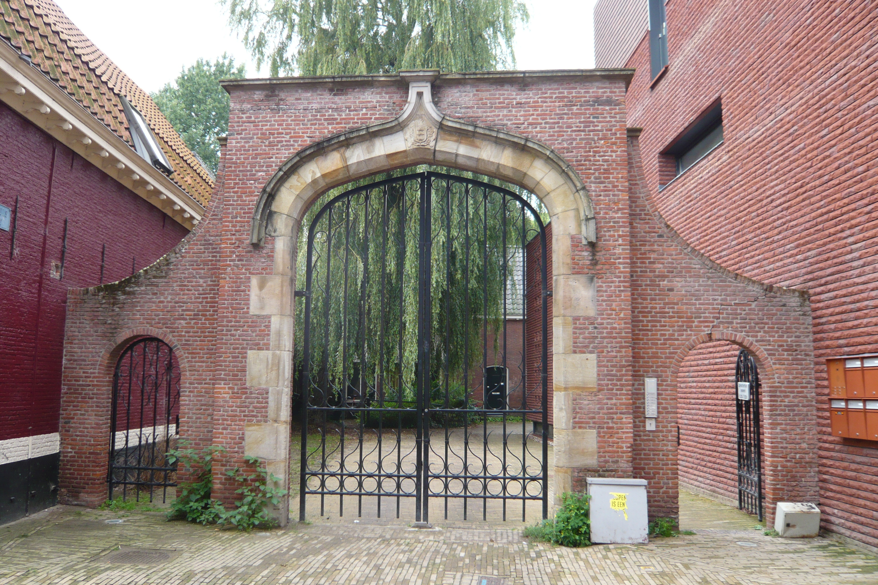 Former gate to "Minnebroers" monastery and later adorned with the triple-crown sign of the St. Elisabeth Gasthuis, which took over the monastery quarters after the great fire of 1576. All of the monks who still lived there in 1576 had to move out.